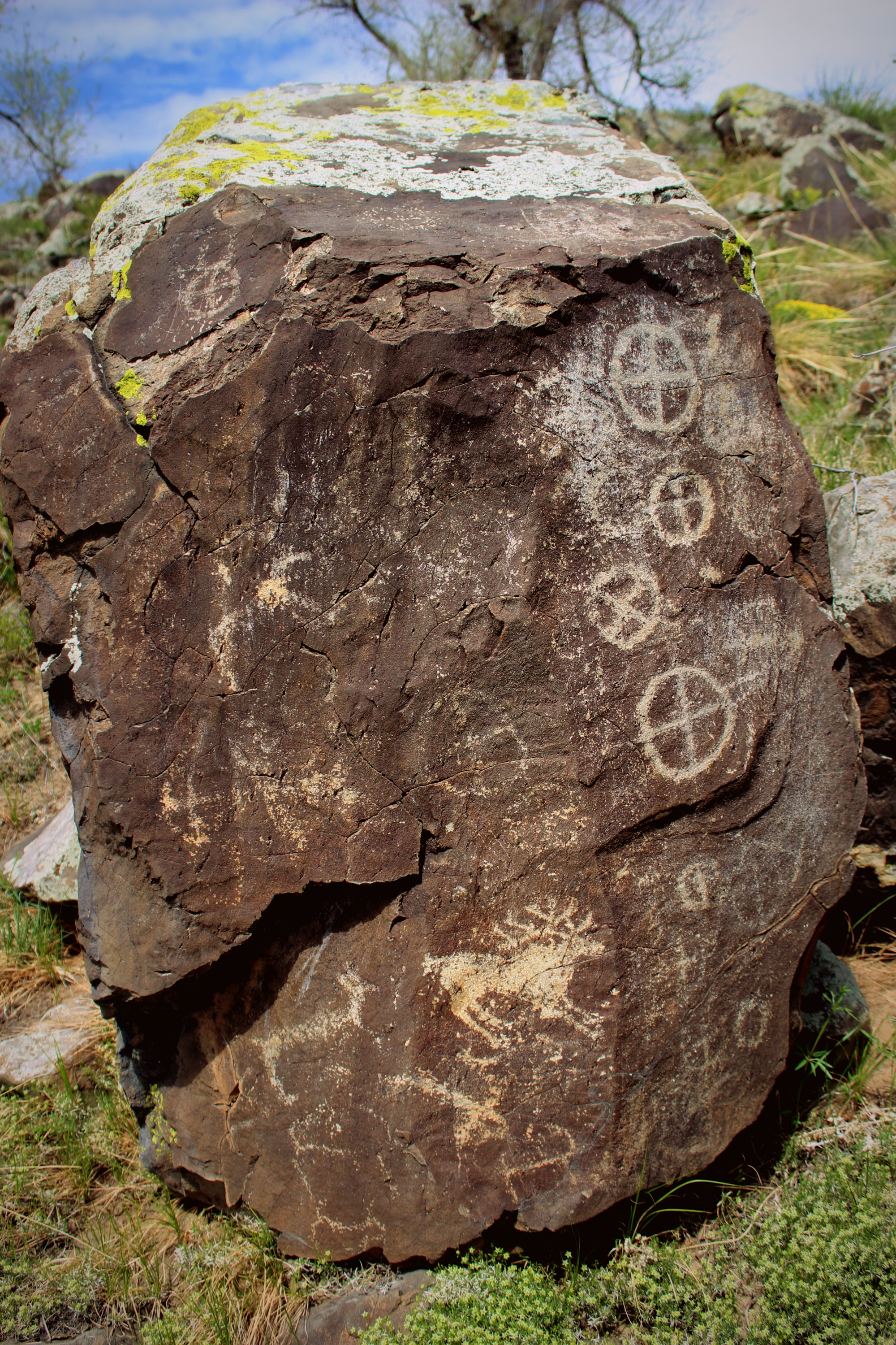 Petroglyphs on Mount Baga-Zarya. Siberia, Buryatia.